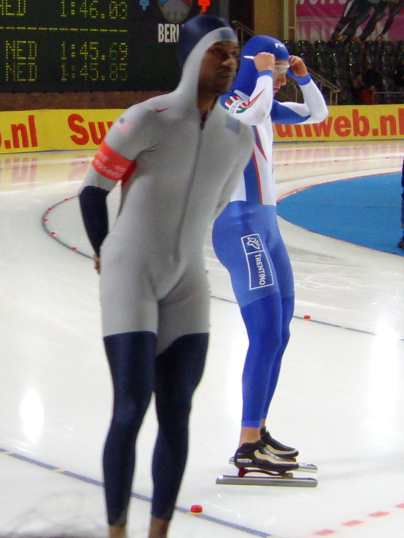 Shani Davis (USA) befor 1500 meters world cup speedskating race in Berlin, Germany.